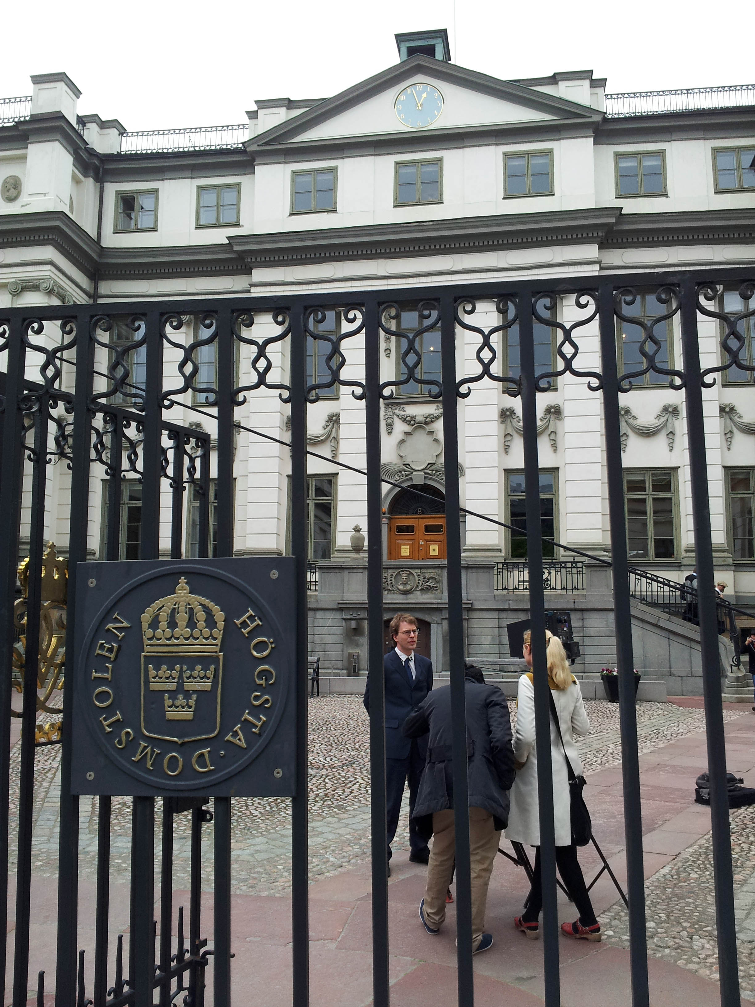 Manga translator Simon Lundström in a TV interview at the Supreme Court of Sweden, after a hearing on the so called "manga case" (2012-05-16).